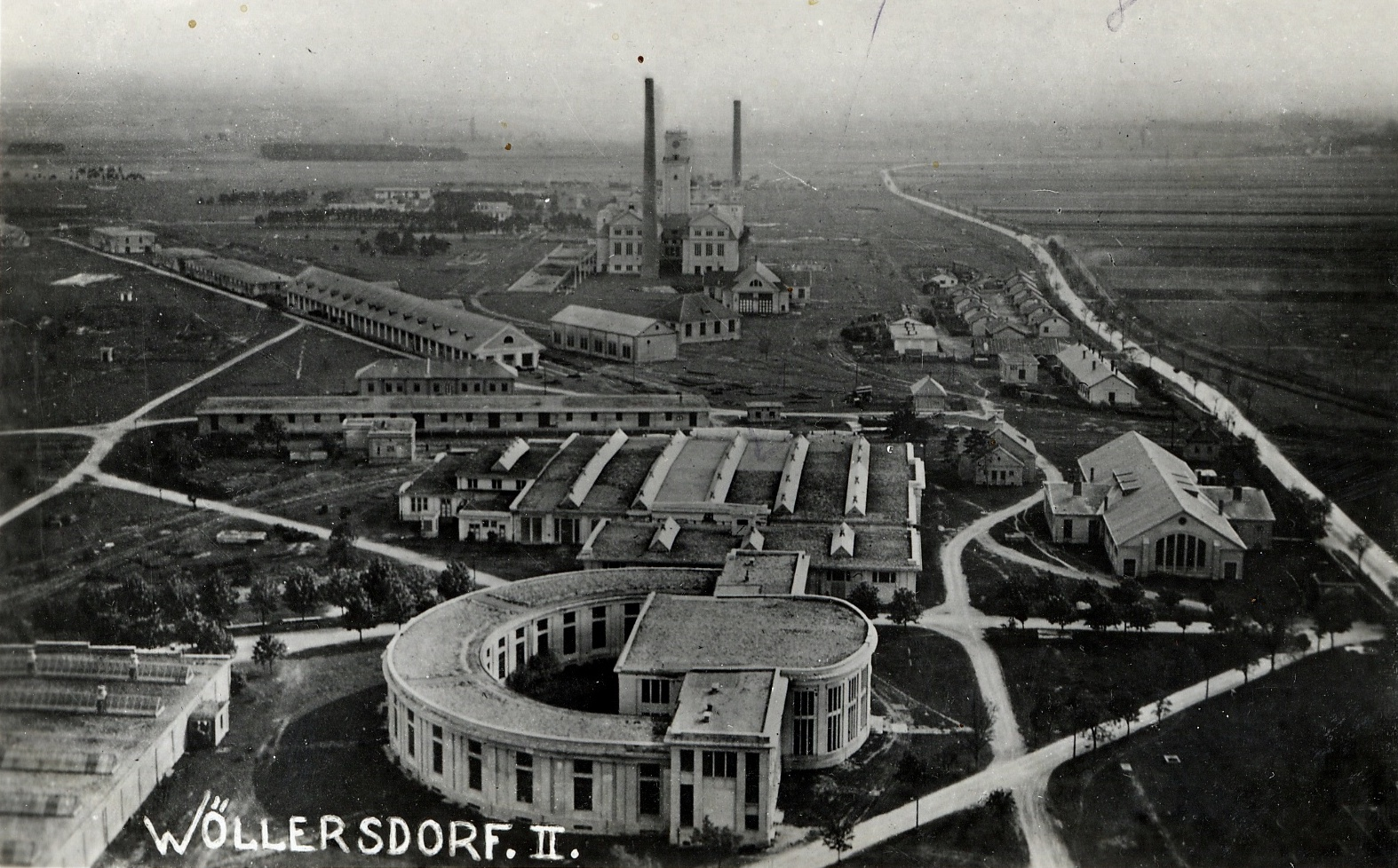 Old ordnance factory in Wöllersdorf-Steinabrückl / Lower Austria / Austria / EU. Old Postcard. From 1933 till 1938 was the disused factory a concentration camp of the Austrofascism (Fatherland Front Vaterländische Front and her paramilitary Homeguard Heimwehr with their leaders Engelbert Dollfuss and Kurt Schuschnigg).